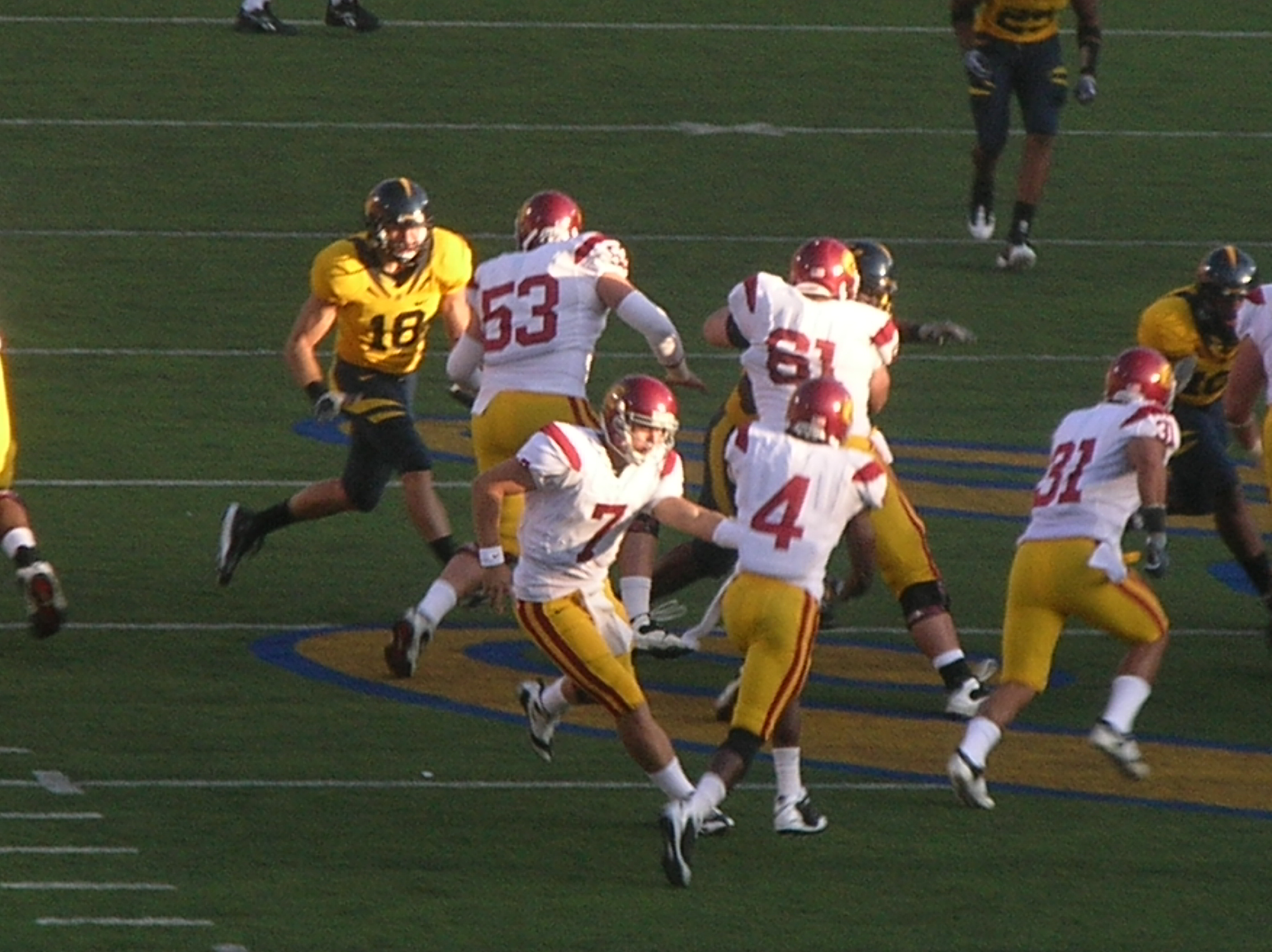 USC running back Joe McKnight (#4) takes the handoff from Matt Barkley (#7) during a road game against the California Golden Bears. The Trojans won 30-3.